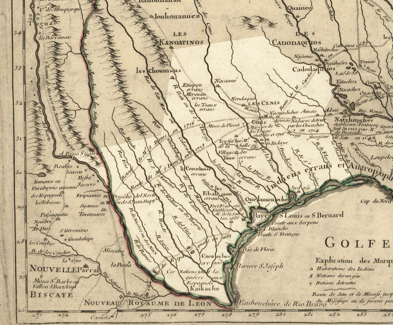 Texas 1718, approximate modern state area highlighted, from Carte de la Louisiane et du cours du Mississipi by Guillaume de L'Isle. My contributions cleaning and highlighting are also donated to Public Domain. Bill Whittaker (talk) 13:29, 24 September 2009 (UTC)